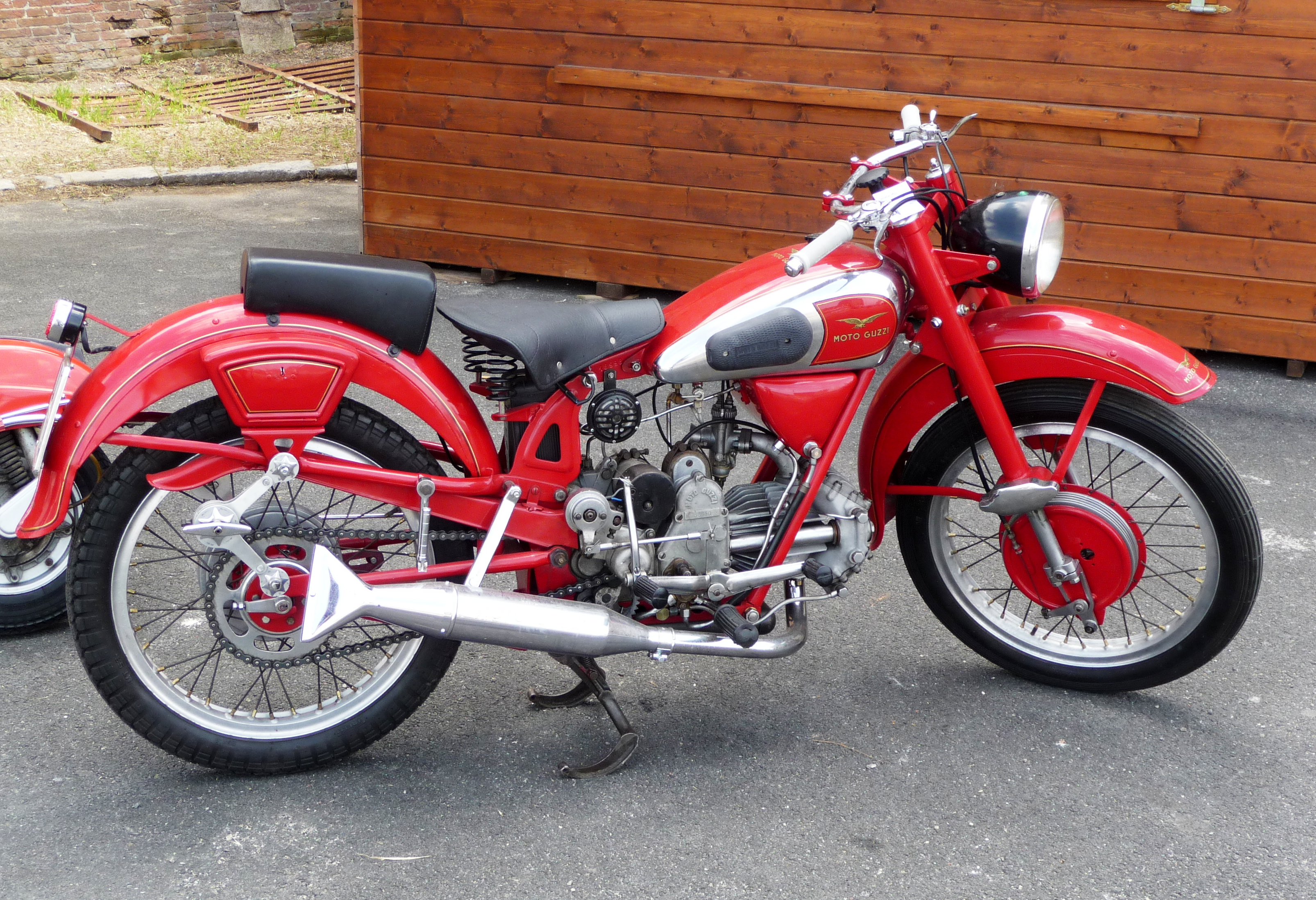 Moto Guzzi motorcycle